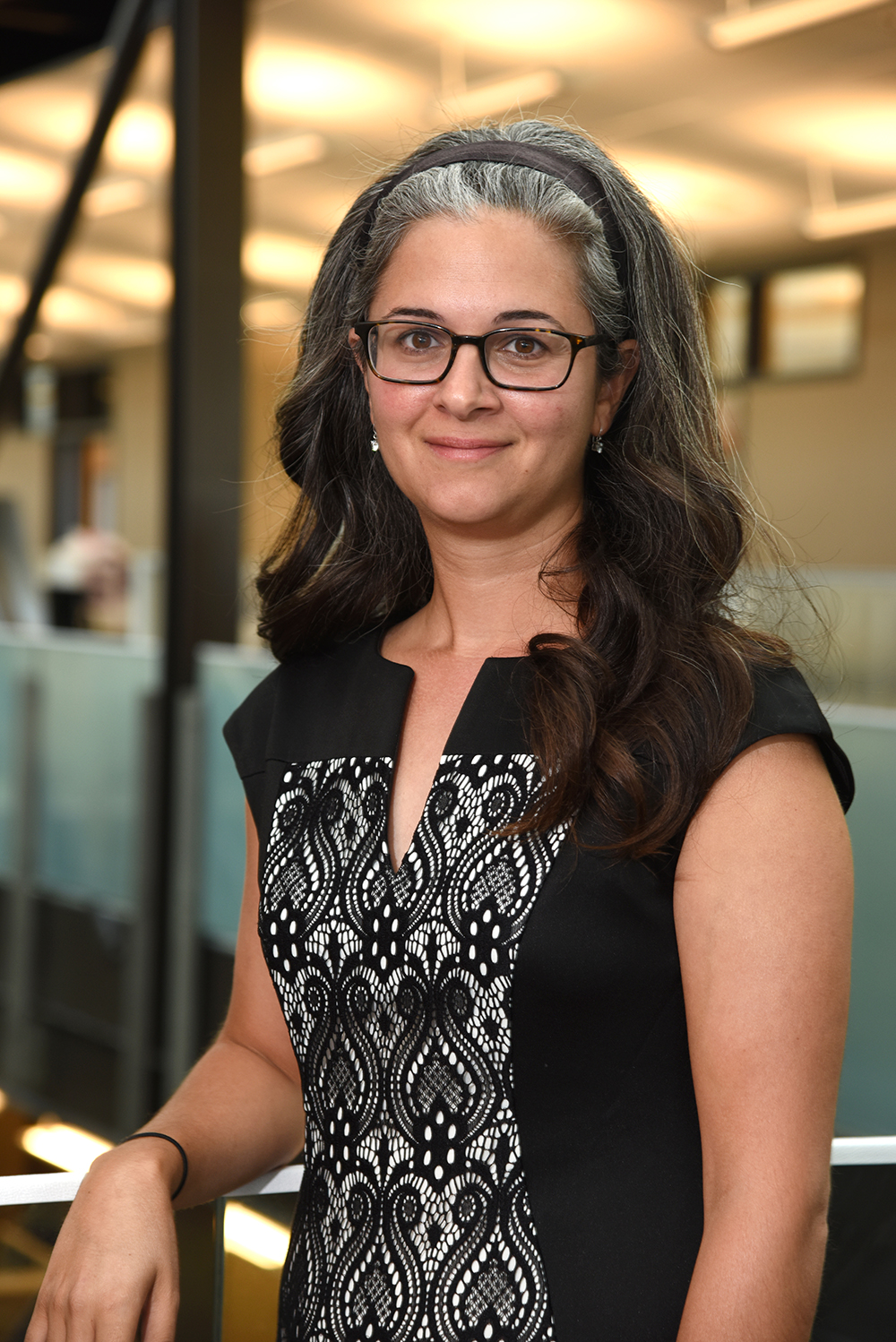 Dr. Noël Bakhtian, director of the Center for Advanced Energy Studies (CAES) at Idaho National Laboratory